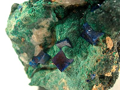 Atacamite, Boleite, Malachite Locality: Santa Rosa Mine, Noche Buena, Municipio de Mazapil, Zacatecas, Mexico (Locality at ) Size: miniature, 5.1 x 3.8 x 2.1 cm Boleite with Atacamite and Malachite A very rare specimen of sharp boleite crystals to 5mm on SOLID MATRIX ...this is rare in itself. What is more, the matrix is a mix of copper species that are very rare in this deposit, ESPECIALLY in association with the boleite. In fact, even on the few other matrix pieces I have seen, the atacamite is more a smear on the rock than an actual crystallized accessory species as we see here. This is therefore not just a pretty specimen, but a sigificant locality piece - and probably a very old one dating to the early finds here prior to 1900.